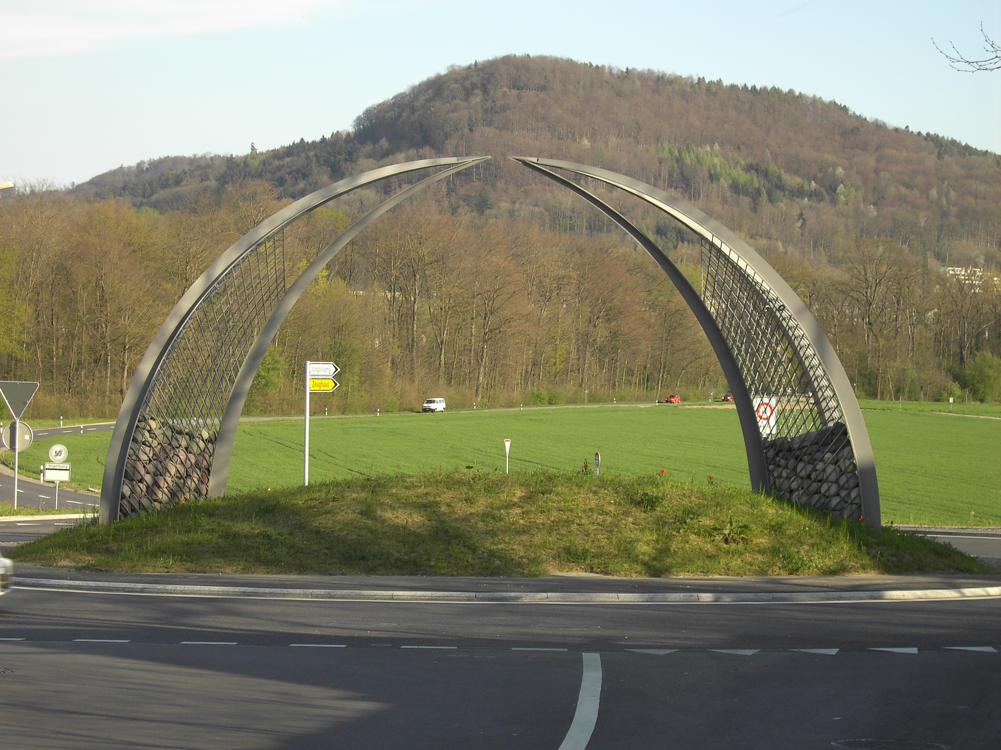 Roundabout at Brugg-Lauffohr, Aargau, Switzerland